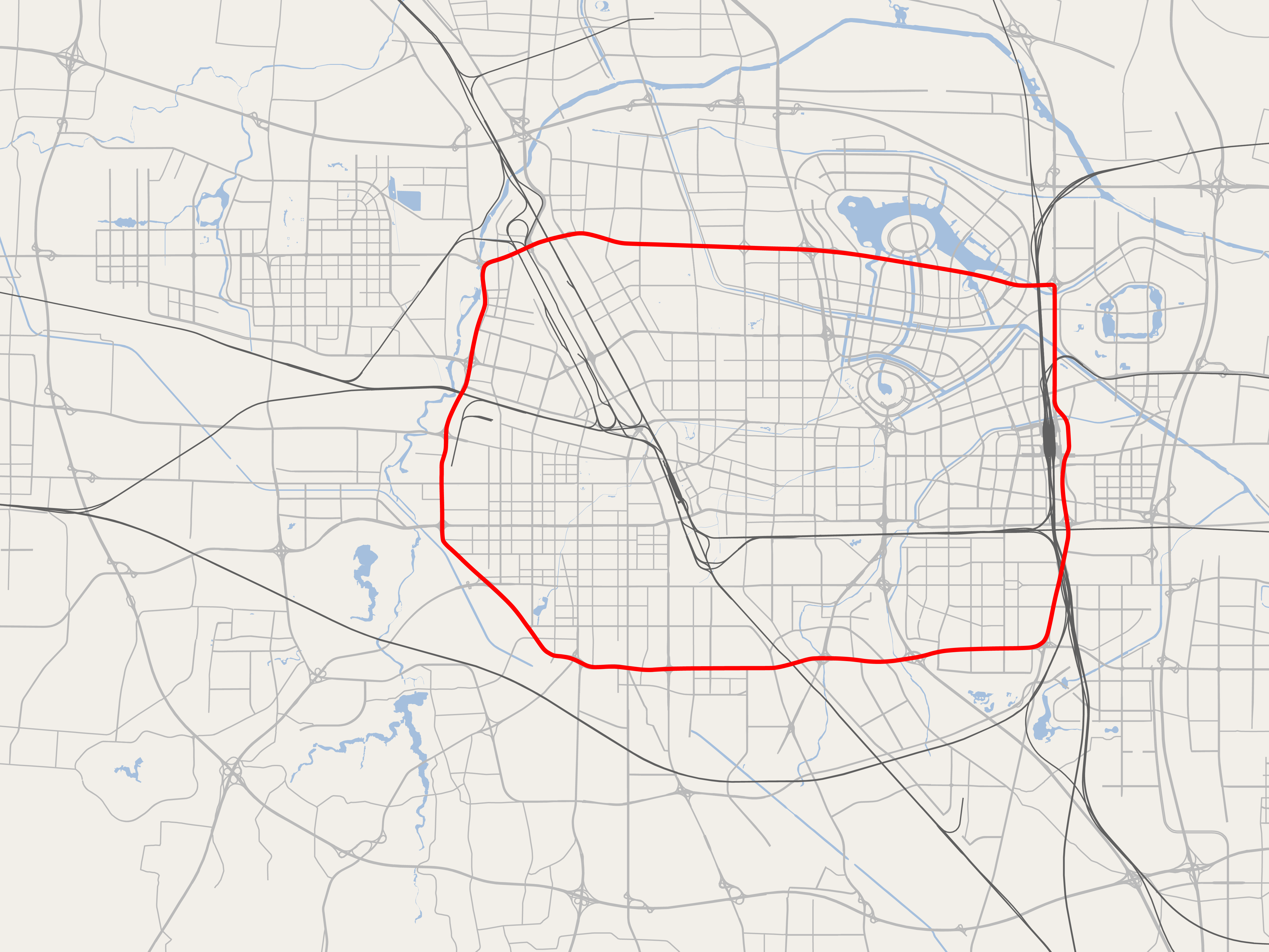 Route Map of Zhengzhou 3rd Ring Road